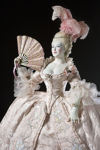 =Historical Mixed Media Figure of Countess Jeanne Du Barry produced by artist/historian George S. Stuart and photographed by Peter d'Aprix. This image, from the George S. Stuart Gallery of Historical Figures® archive ( is provided for all uses with appropriate attribution. Any derivatives must be shared in the same manner. Contributor mharrsch is webmaster for the gallery site.